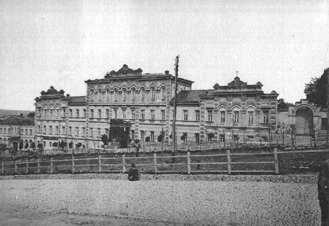 Kharkov Bursa, Russian Empire. Possibly, the beginning of XX-century.